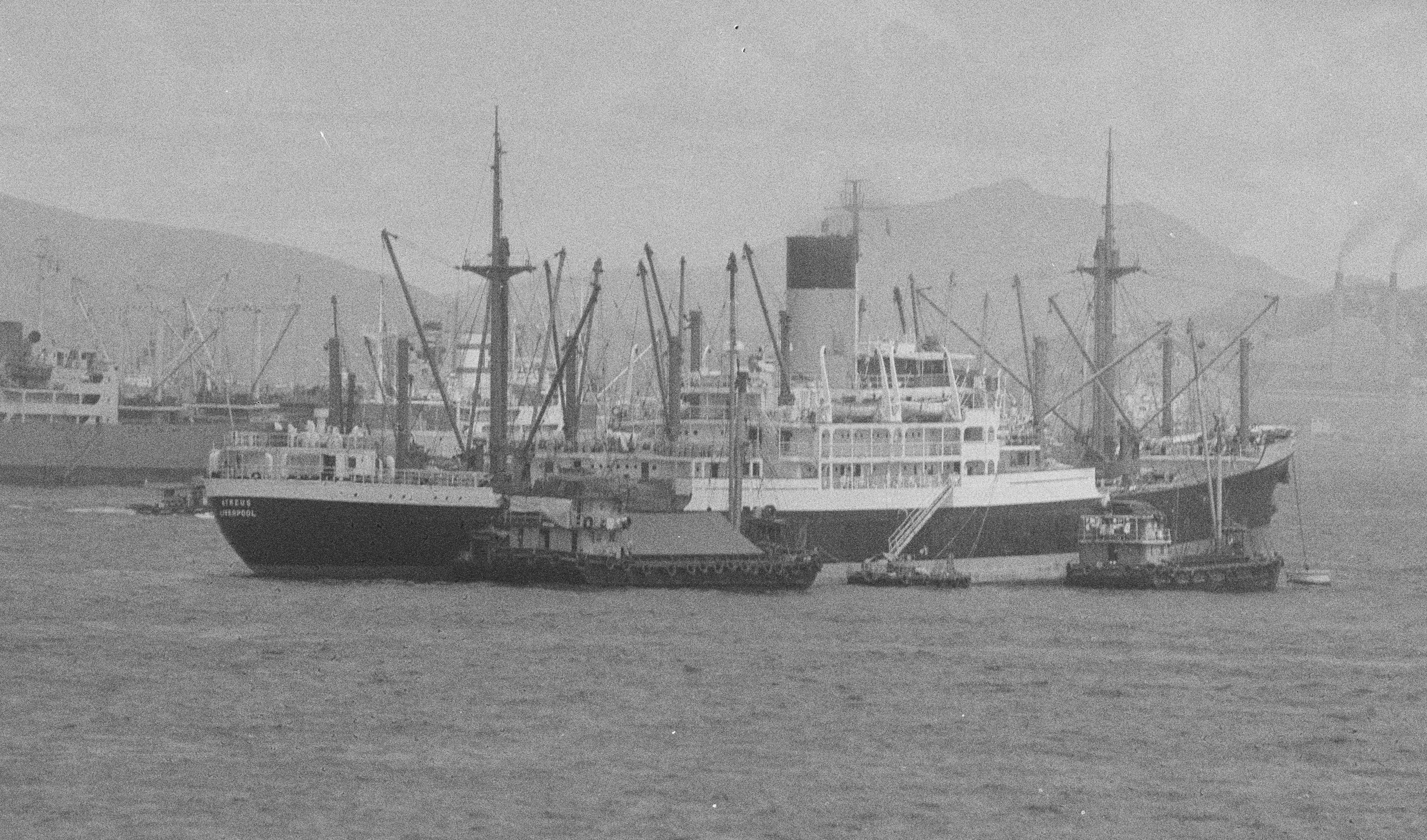 MV Atreus in Hong Kong harbour 1975